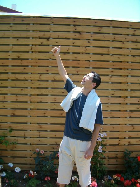 A Israeli fan celebrating Towel Day 2005